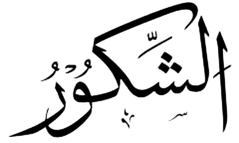 Ash-Shakūr / The Grateful is a name of God in Islam, is a name of Allah.